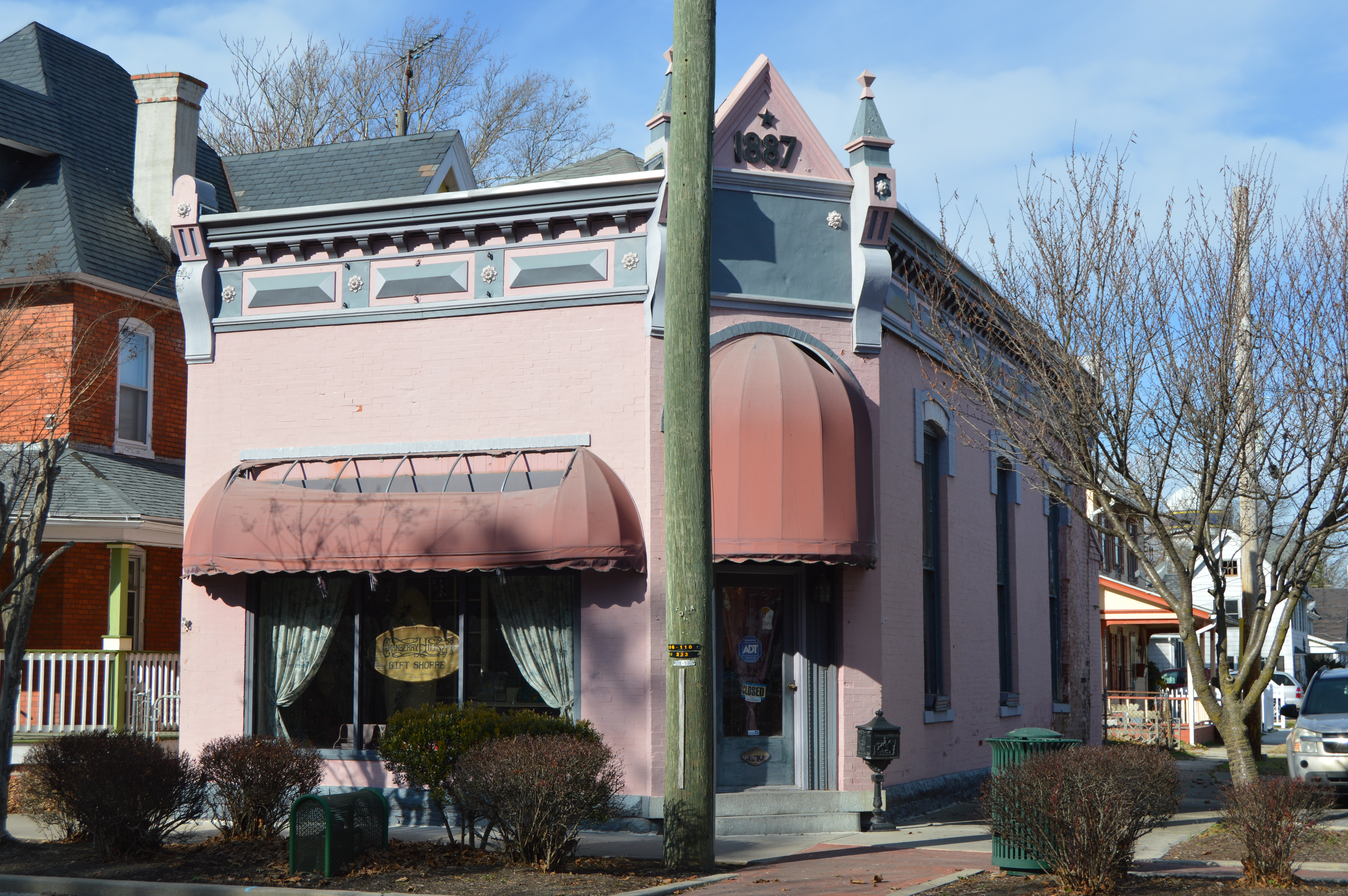 Front and eastern side of the Sussex National Bank of Seaford, located at 130 High Street in Seaford, Delaware, United States. Built in 1887, it is listed on the National Register of Historic Places.